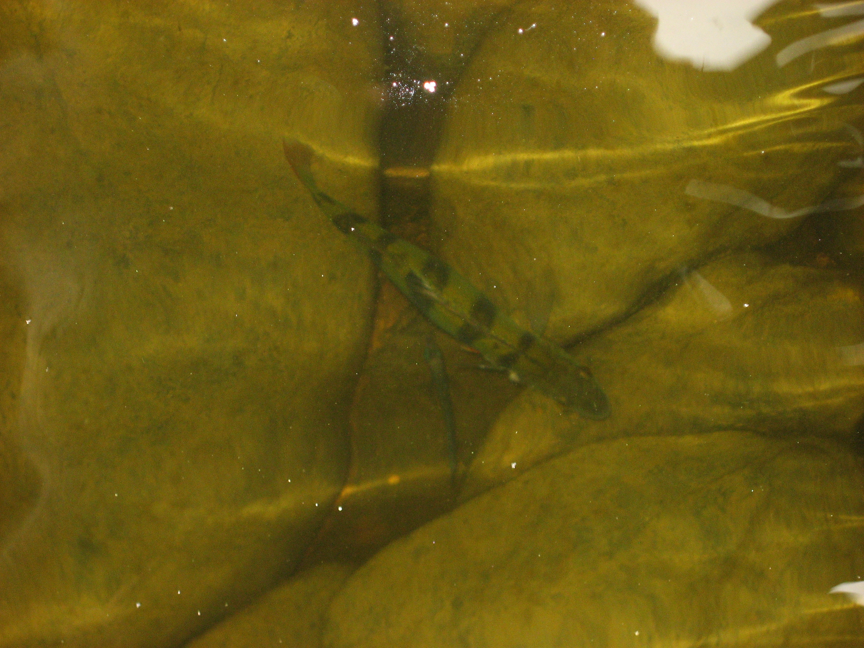 View I've seen a thousand times - perch under the dock at my grandmother's place in Hörnefors.